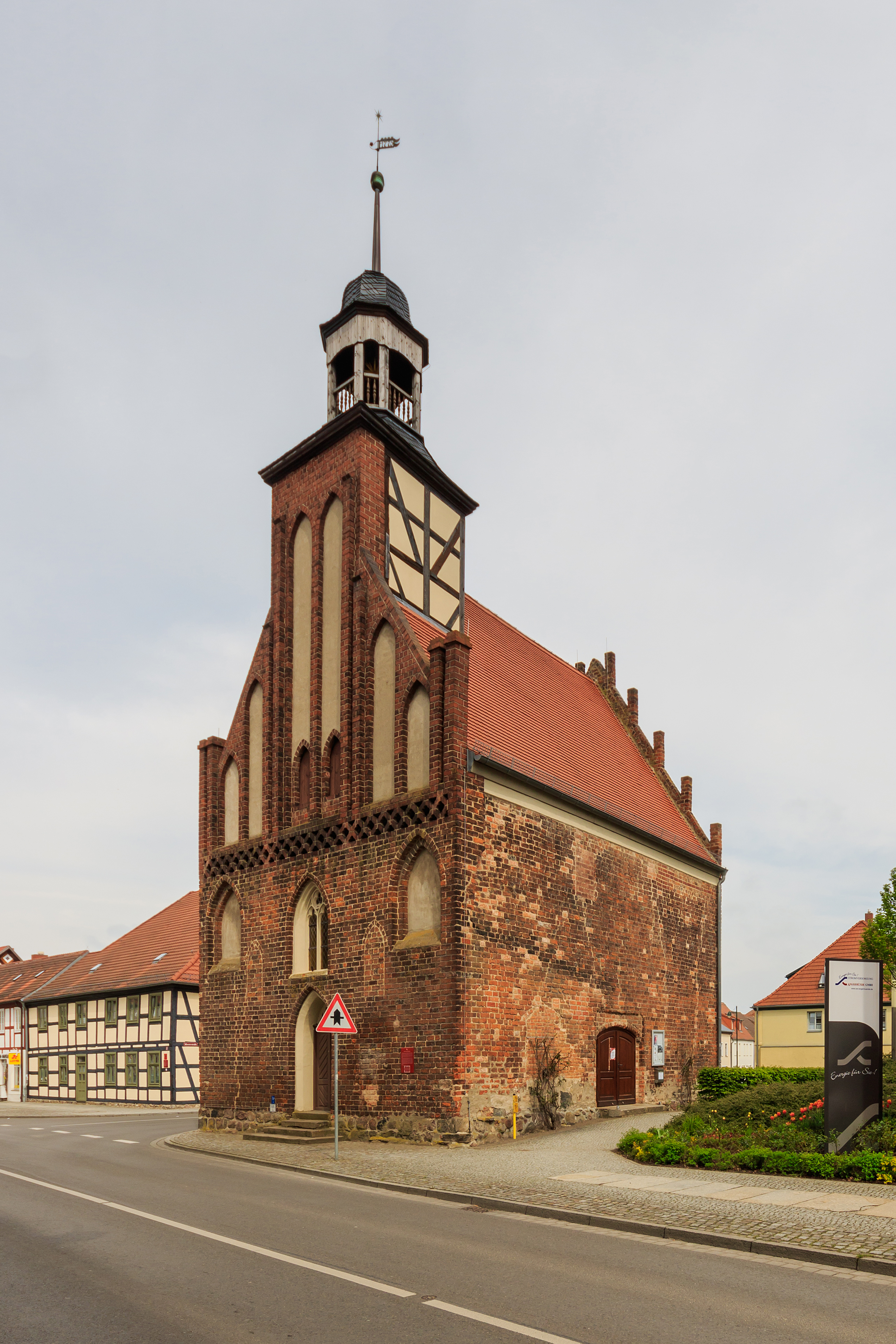 Holy Spirit Chapel in Angermünde (Brandenburg/Germany)